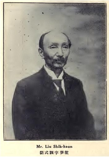 Liu Shixun (1868-？)